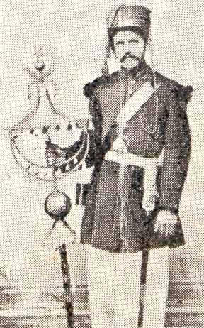 Shell Tree of Band of the Military Police of Parana (Brazil), in 1868.